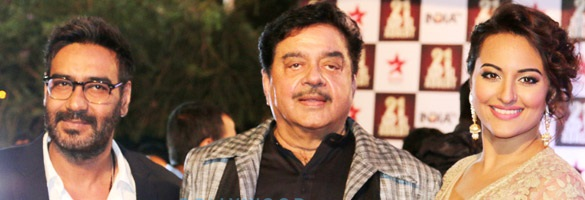 Ajay Devgn, Sonakshi Sinha & Shatrughan Sinha grace the 21 years of 'Aap Ki Adalat' celebration